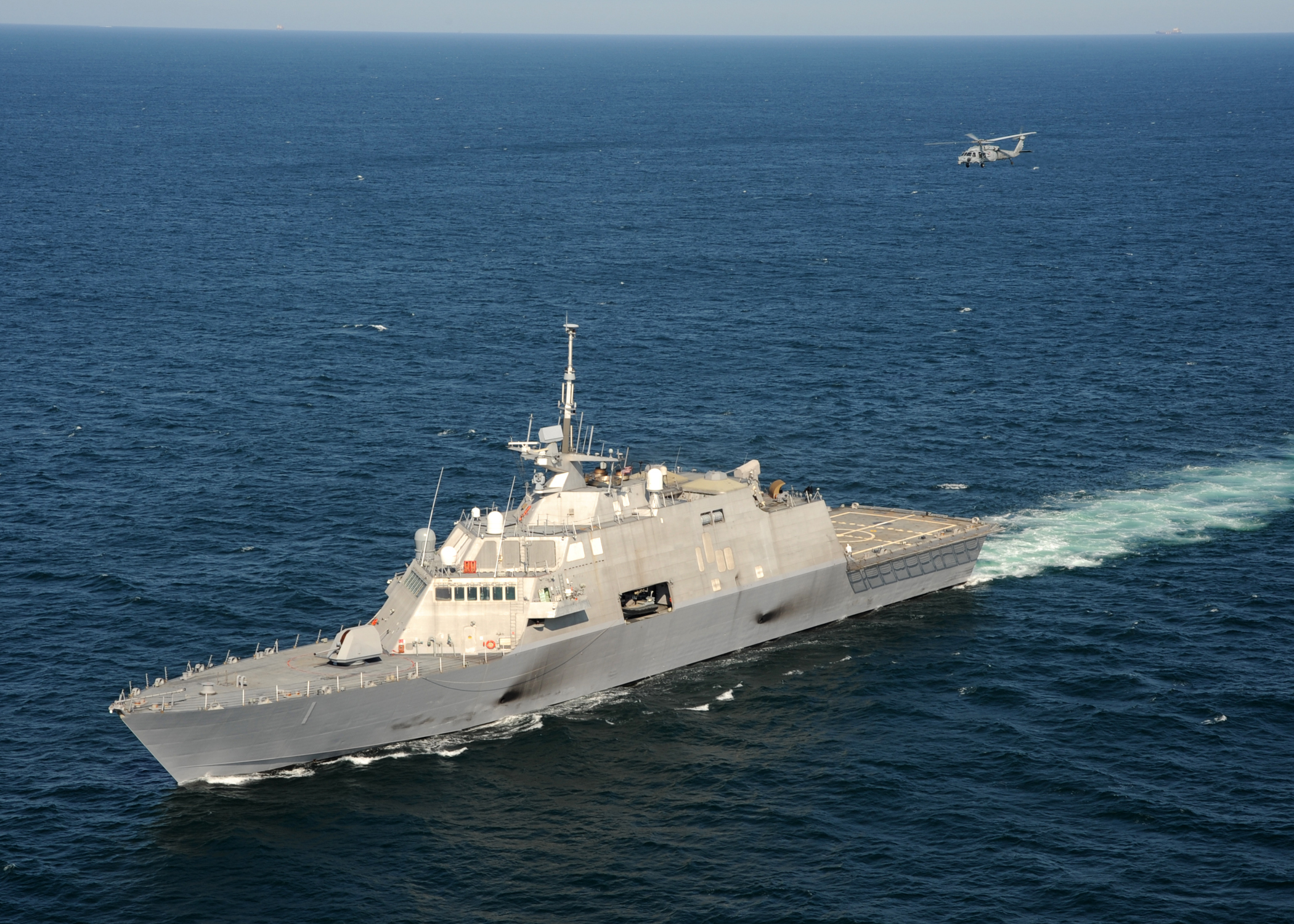 ATLANTIC OCEAN (Sept. 28, 2009) The littoral combat ship USS Freedom (LCS 1) conducts flight deck certification with an MH-60S Sea Hawk helicopter assigned to the Sea Knights of Helicopter Sea Combat Squadron (HSC) 22. (U.S. Navy photo by Mass Communication Specialist 2nd Class Nathan Laird/Released)